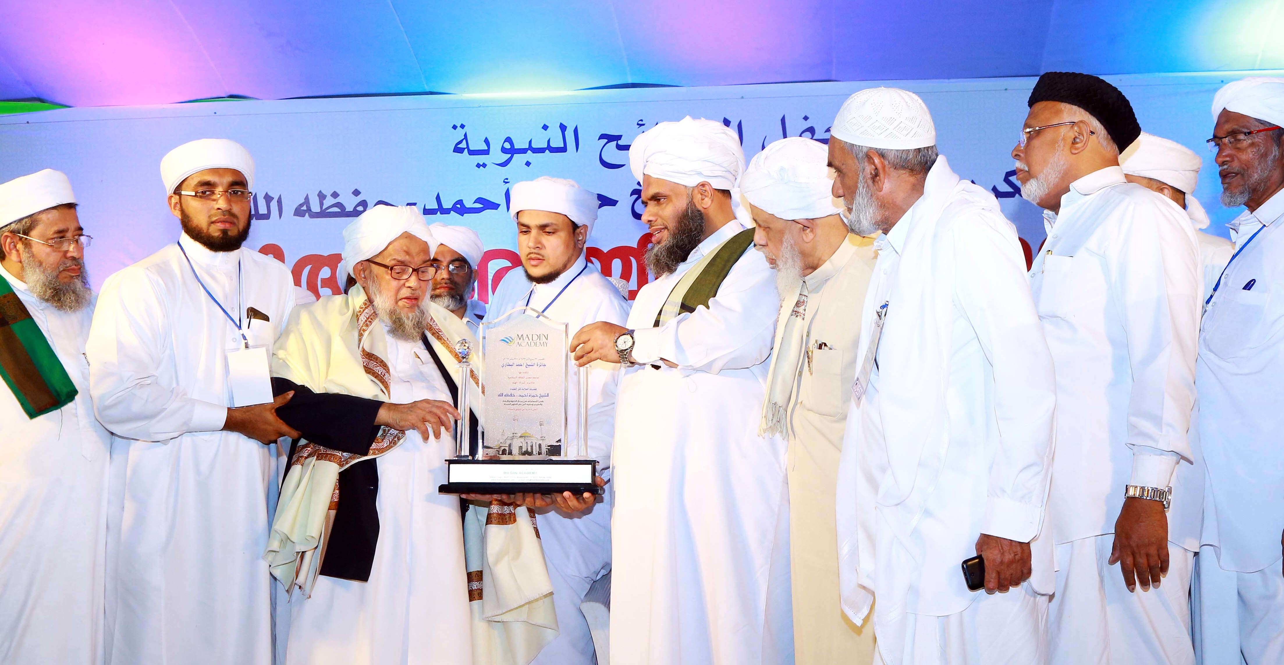 Sheikh Hamza Ahmed receiving the 2016 Ahmad-Ul-Bukhari award.